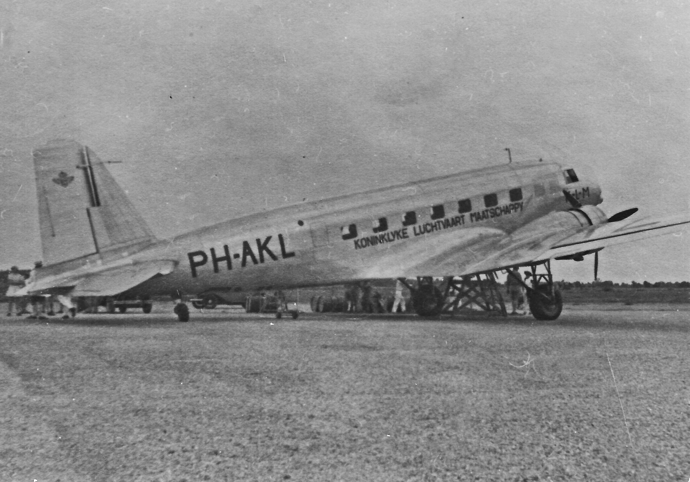 KLM DC2, PH-AKL, pictured at Alor Star (Setar), Malaysia